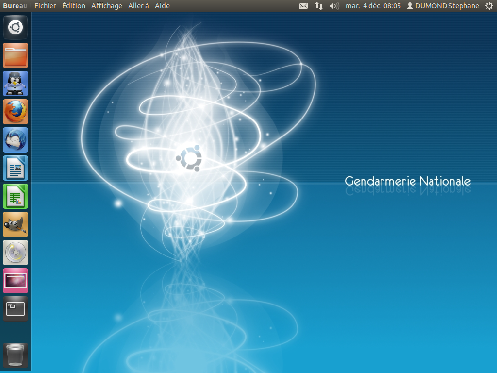 screenshot of the Gendbuntu 12.04 LTS french gendarmerie Linux Ubuntu distribution